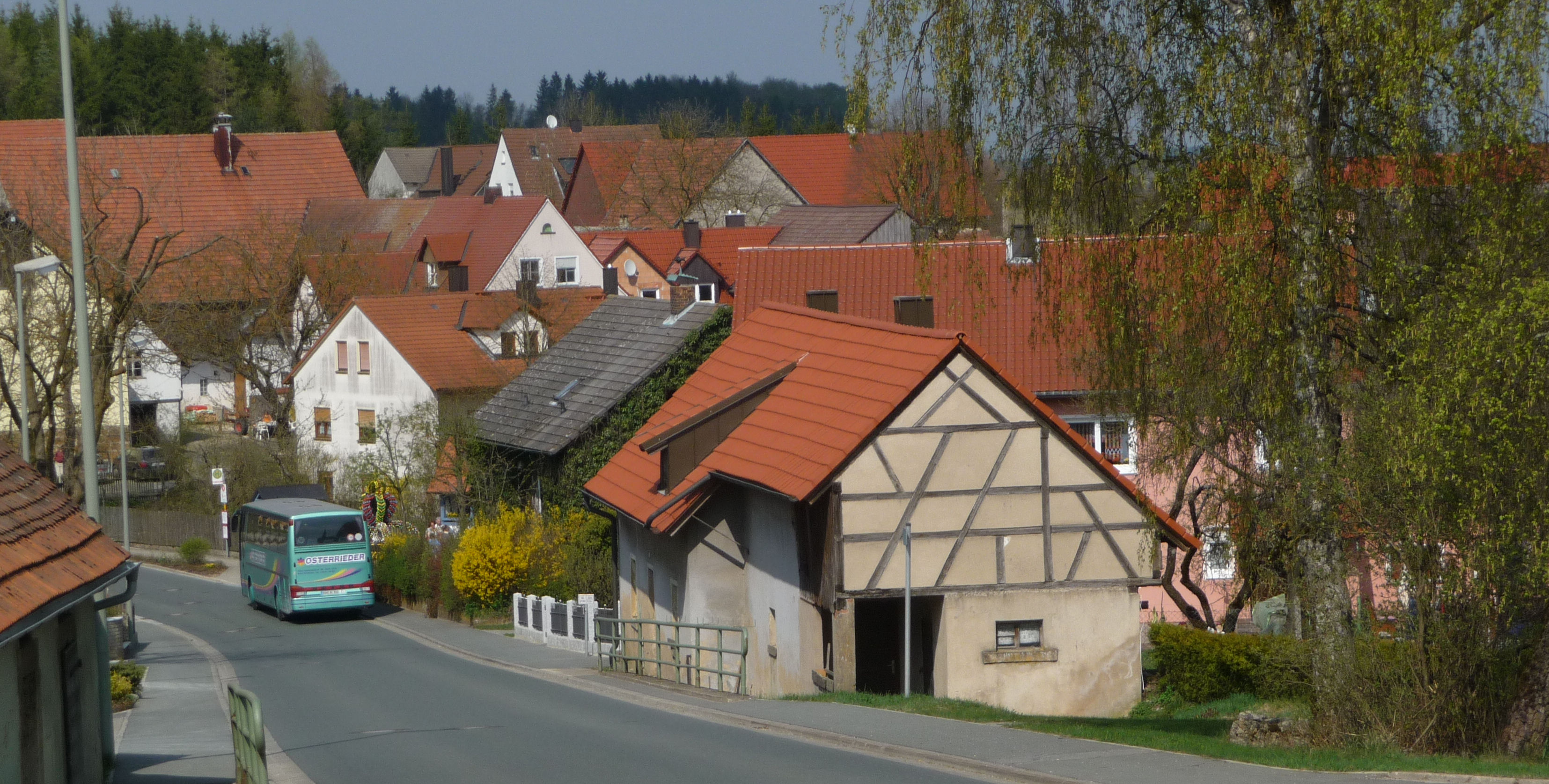 Teuchatz in Landkreis Bamberg, Germany